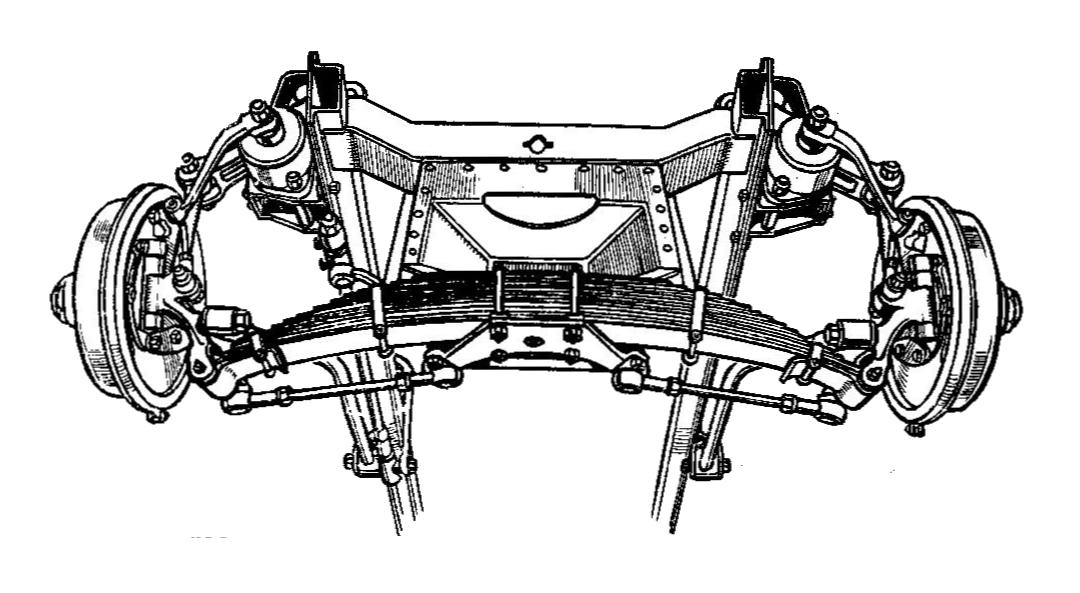 Humber front suspension (Autocar Handbook, 13th ed, 1935).jpg